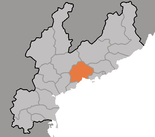 Map of Hongwon, Hamgyong-namdo, DPRK, 2006